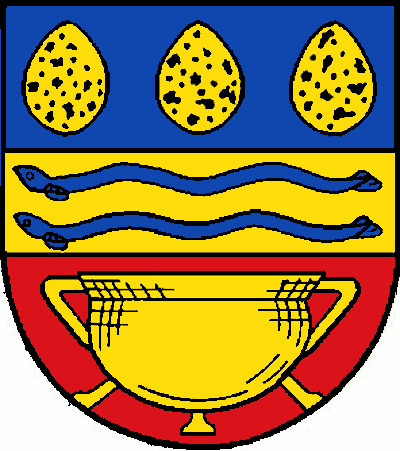 Coat of Arms of Sillenstede